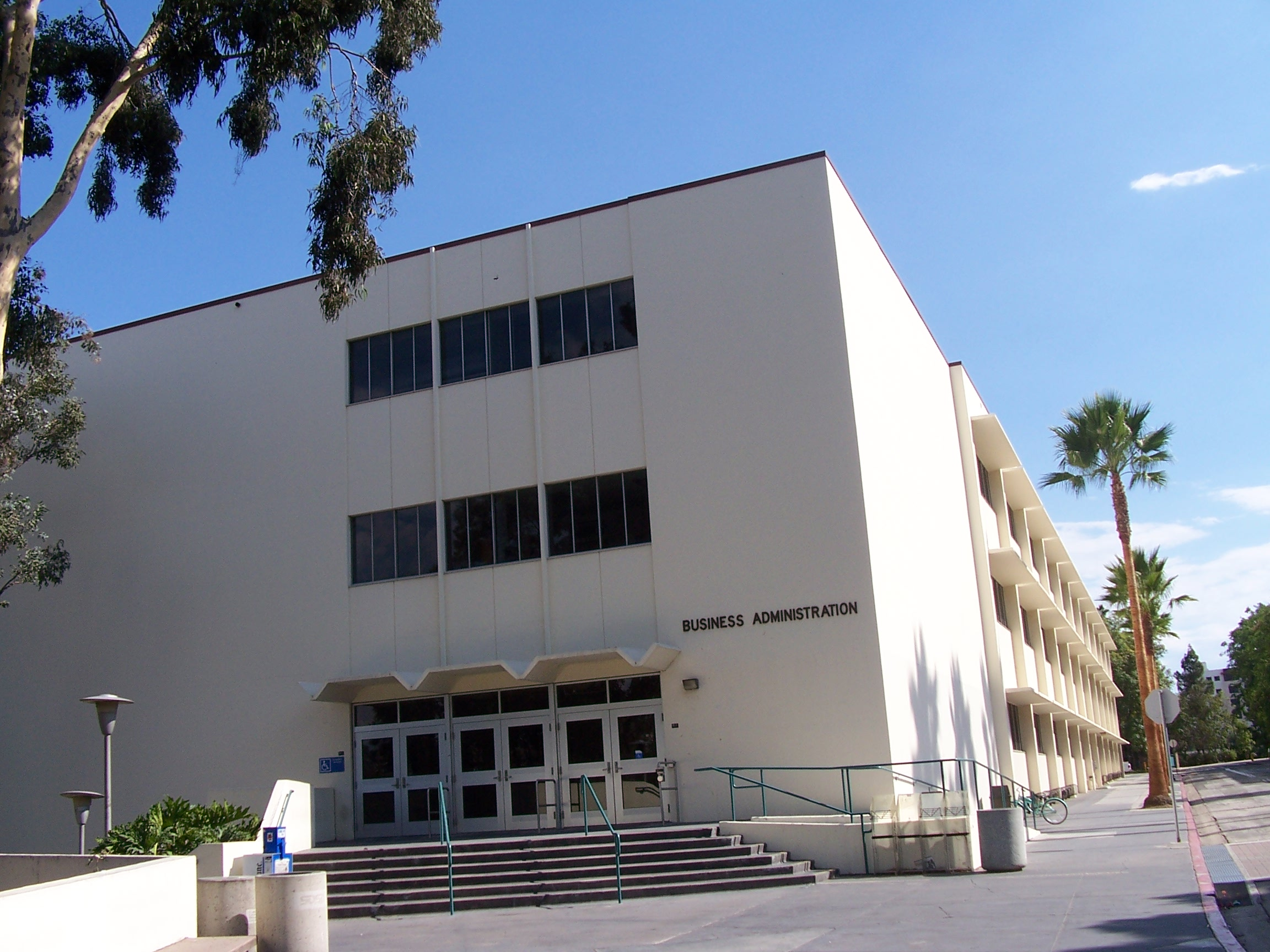 The Business Administration buidling at San Diego State University. Picture taken on September 4, en:2006 by User:Nehrams2020